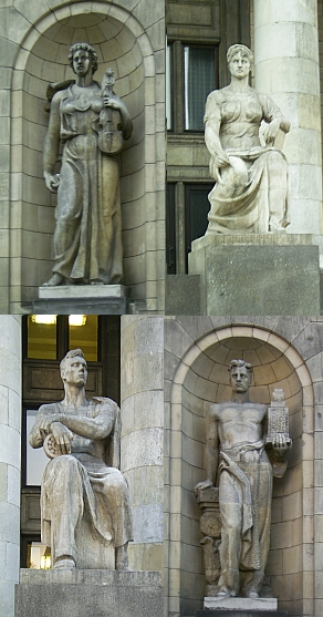 Sculptures surrounding the Warsaw Palace of Culture and Science in Warsaw